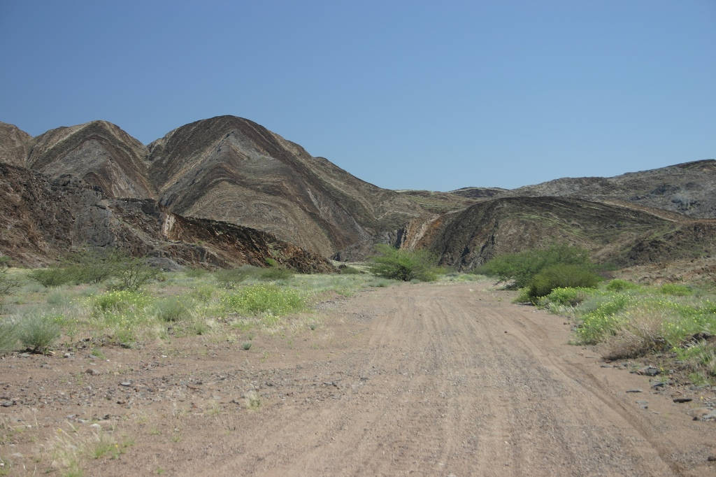 Hills composed of Neoproterozoic turbiditic metasediments of the so-called Zerissene Turbidite System near the Brandberg-West Mine (Afrikaans: Brandberg Wes myn).